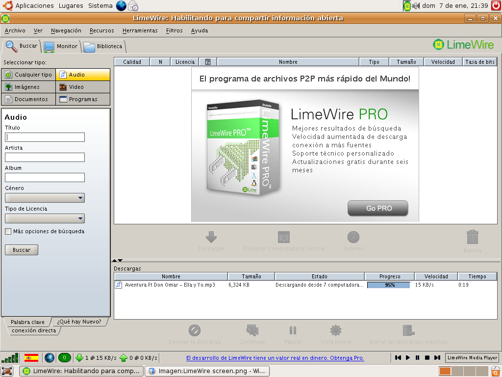 Screenshot - LimeWire 4.12.6 - Ubuntu - Spanish